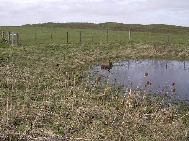 Dewpond and earthworks on Ladle Hill Two features in the north-eastern part of the square. A small dewpond (marked on 1:25K map) used as a flytip it would seem. ANd behind are some of the earthworks of Ladle Hill Fort.